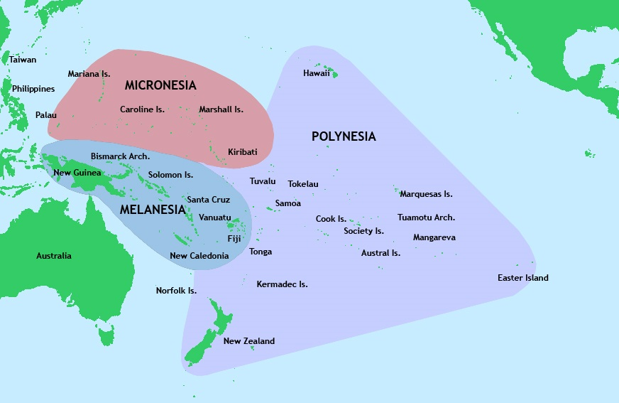 Major culture areas of Oceania: Micronesia, Melanesia, and Polynesia. Micronesia Melanesia Polynesia